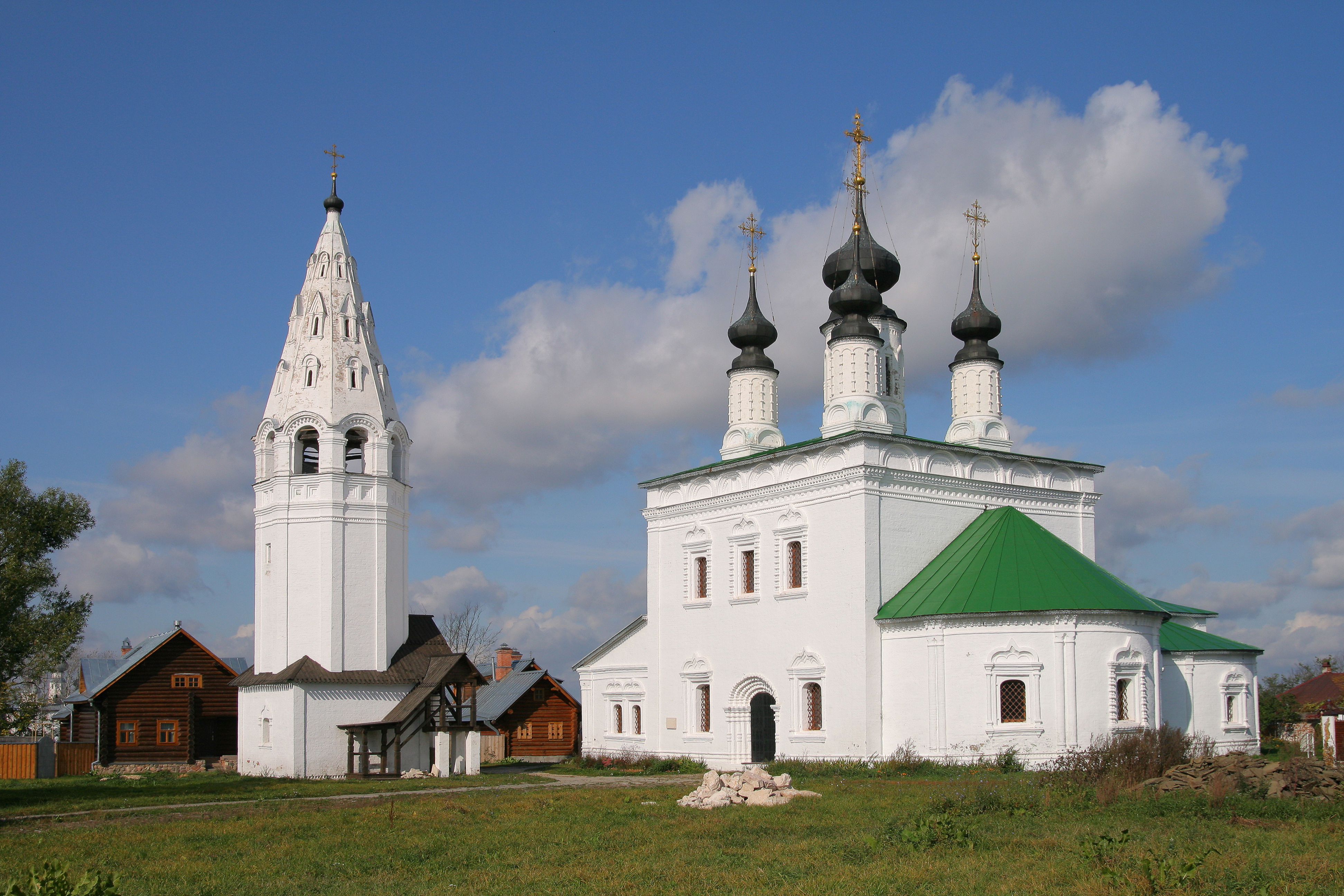 The Ascention Church of the Alexandrovsky Monastery in Suzdal, 1695